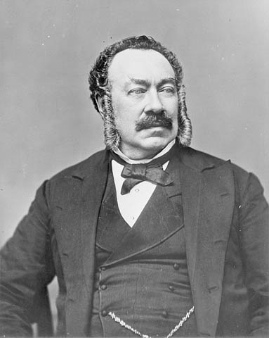 Willam A. Henry (1816-1888), Father of Confederation for Nova Scotia